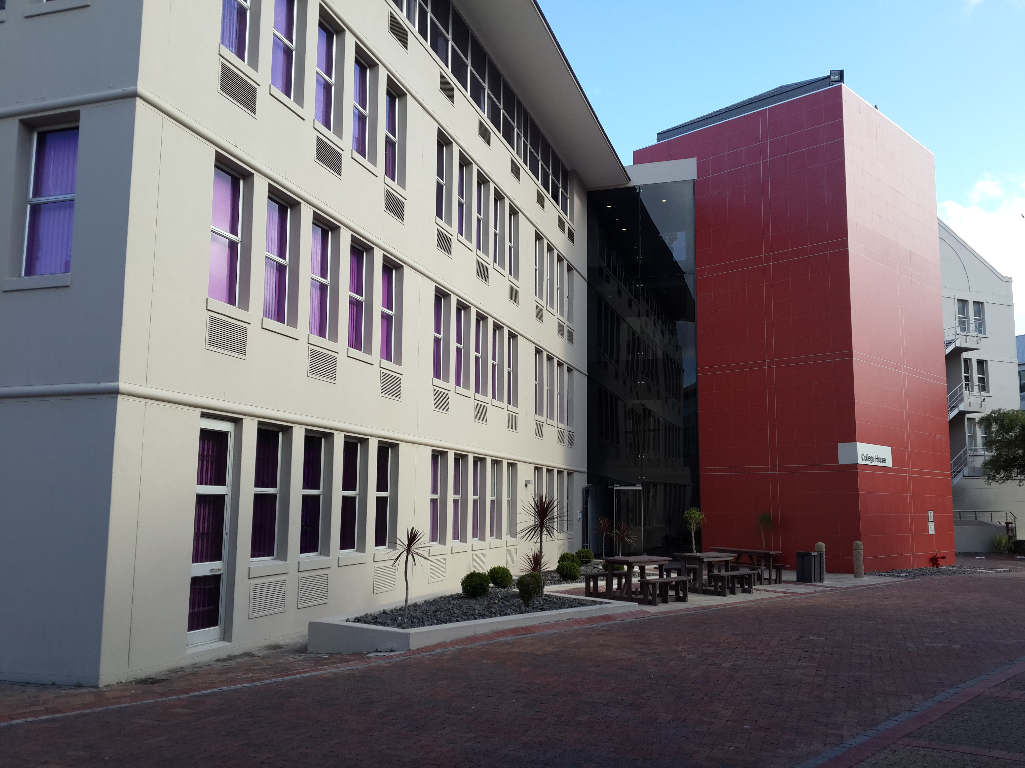 Buildings on the Varsity College Cape Town campus.